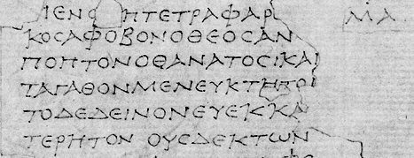 Part of Herculaneum Papyrus 1005 (P.Herc.1005), col. 5. Contains Epicurean tetrapharmakos from Philodemus' Adversus Sophistas. Original from 1st century(?). Handwritten copy by Giuseppe (?) Casanova 1803-1806.